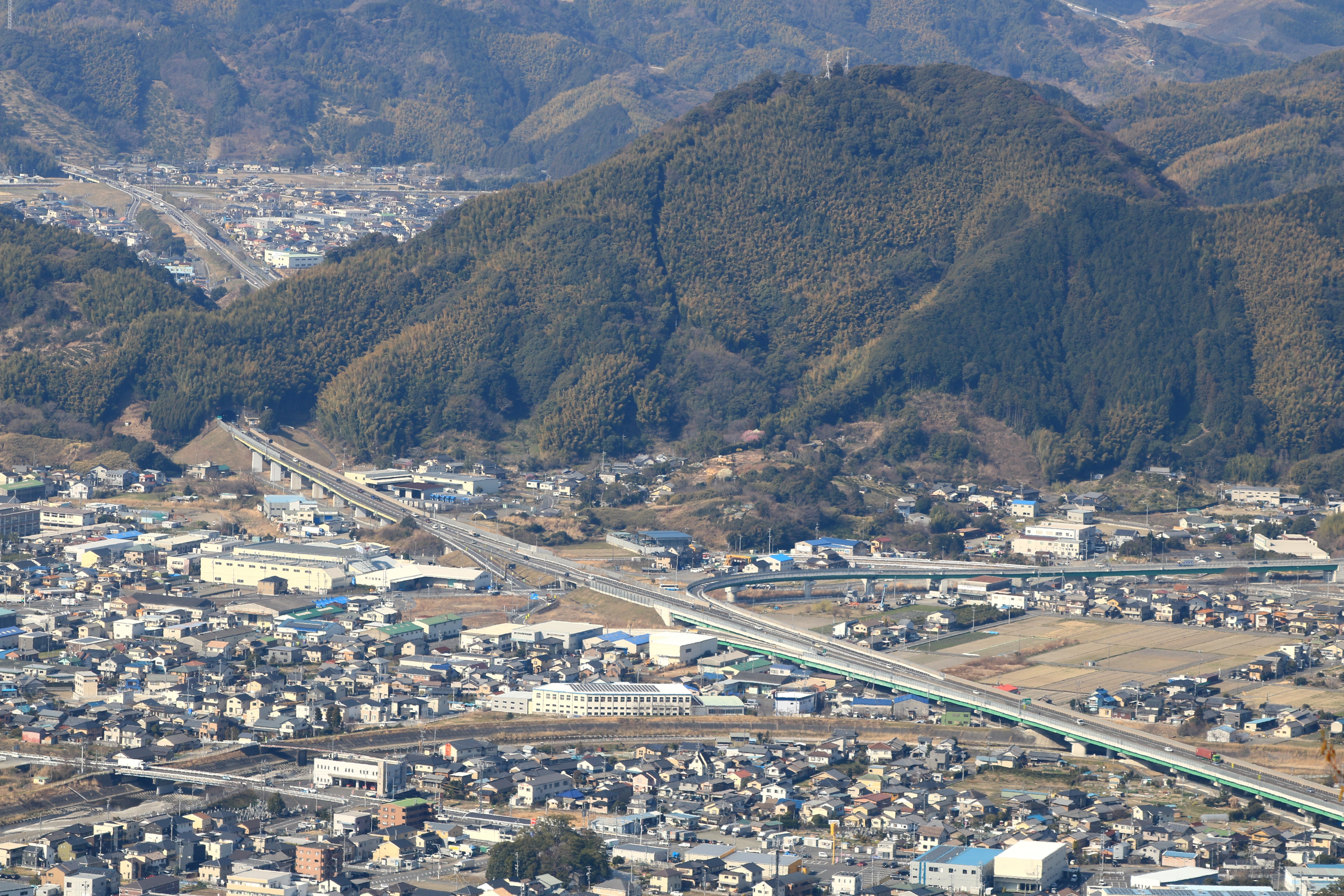 Hirohata Interchange of Fujieda Bypass (Route 1) seen from Mount Takakusa, in Fujieda Shizuoka prefecture, Japan.